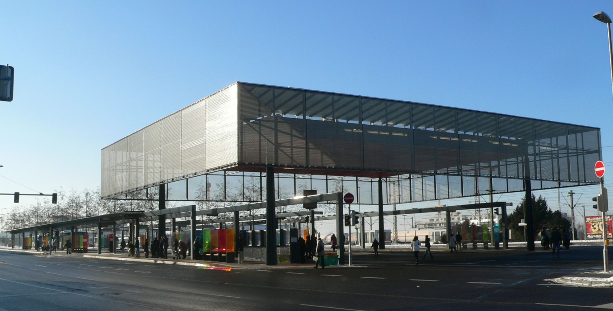 Central bus station in Böblingen, Germany. New in service since 2008-12-14.